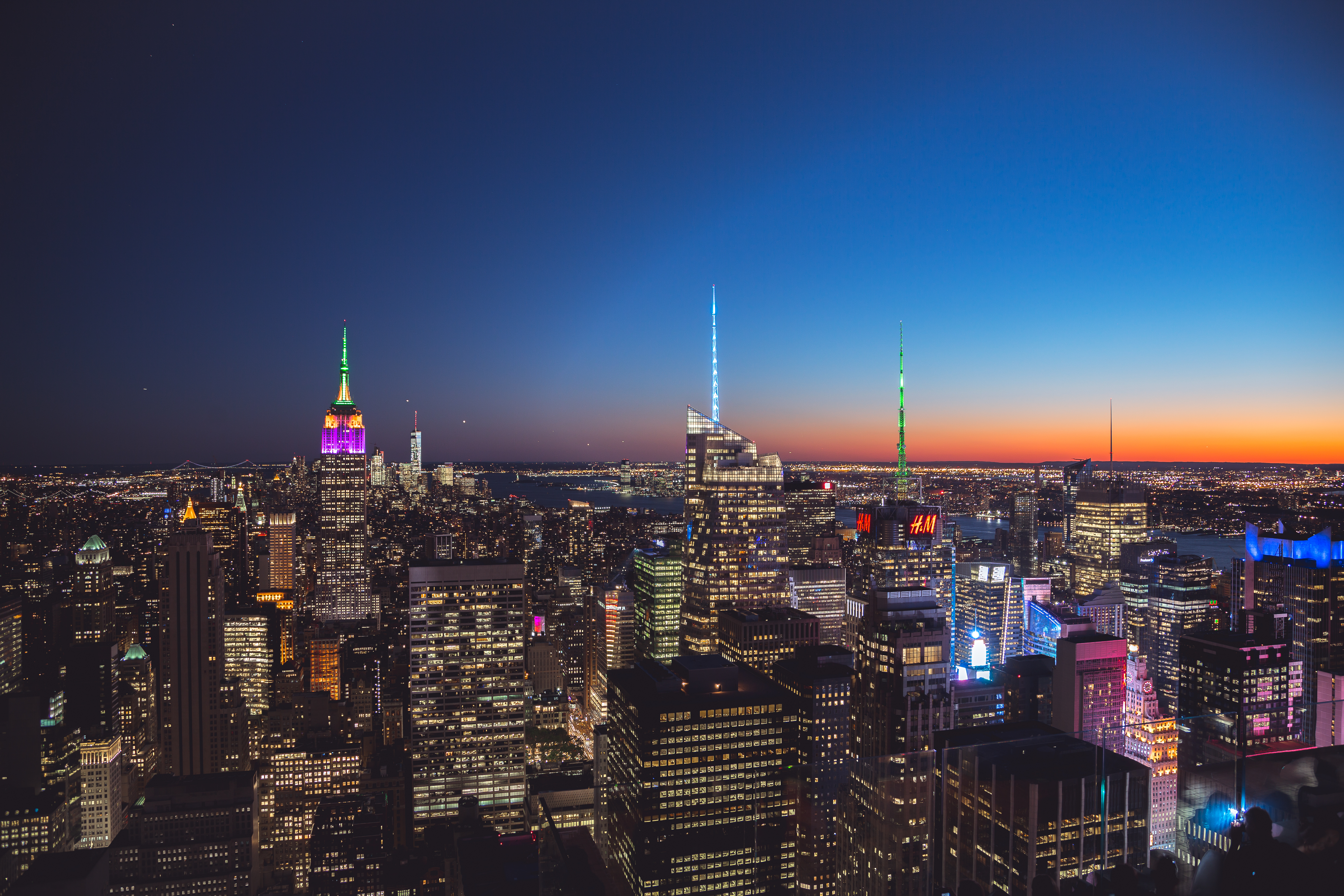 New York-6085-4